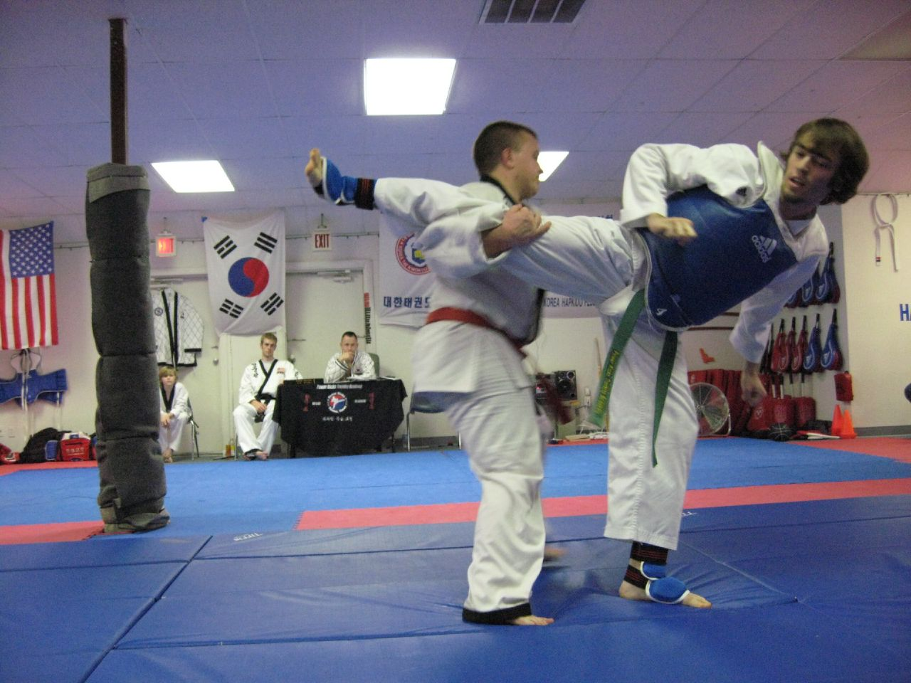 Two hapkido practicioners performing techniques in a black belt examination. (Originally uploaded to the English Wikipedia project as Hapkido2.jpg at [1] by Wikiman86.)